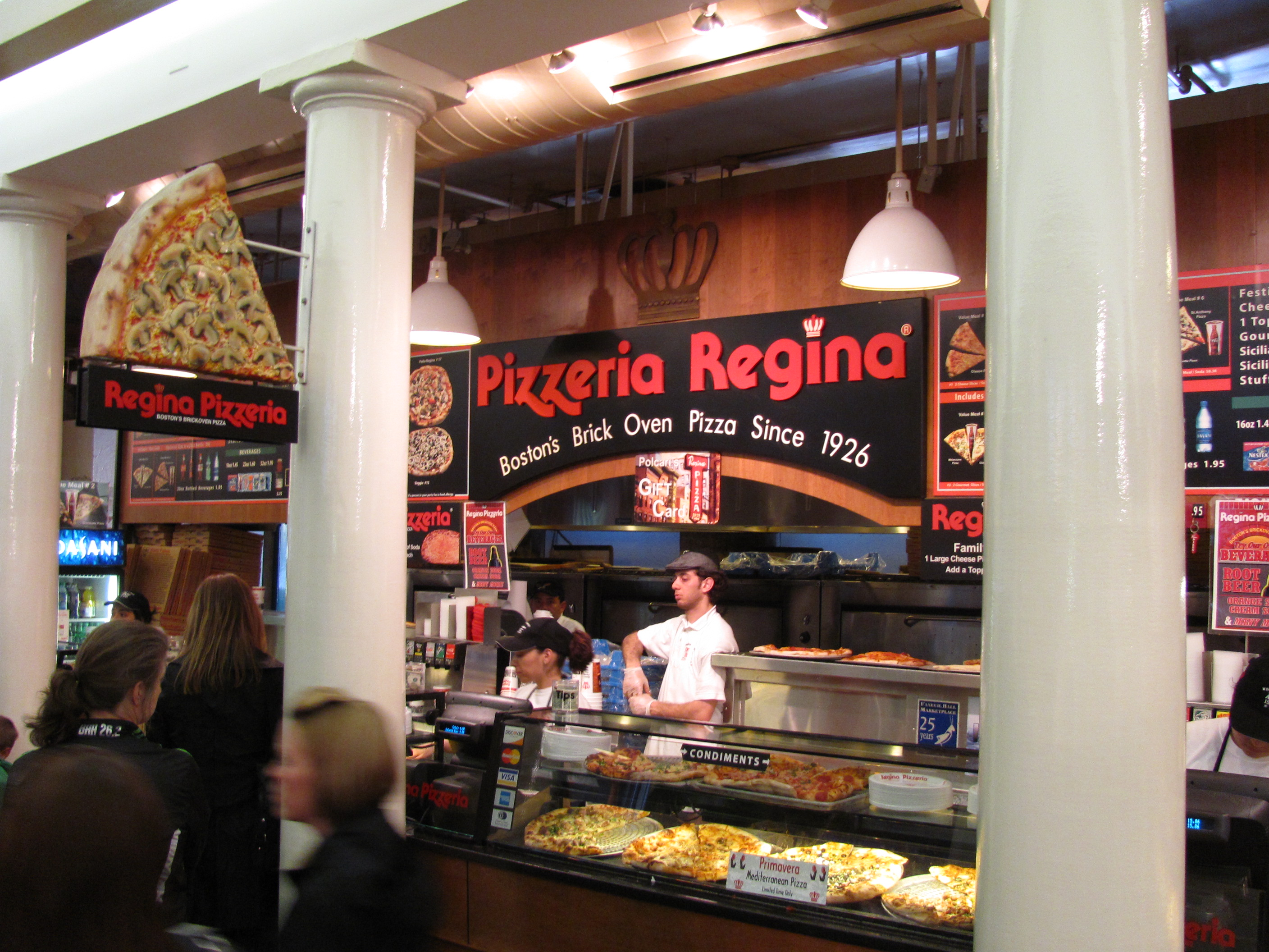 Pizzeria Regina in Faneuil Hall, Boston Massachusetts